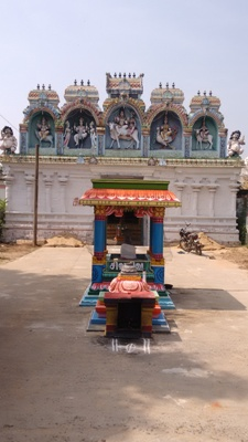 Sembanarkovil sornapurisvarar temple செம்பனார்கோயில் சொர்ணபுரீஸ்வரர் கோயில்